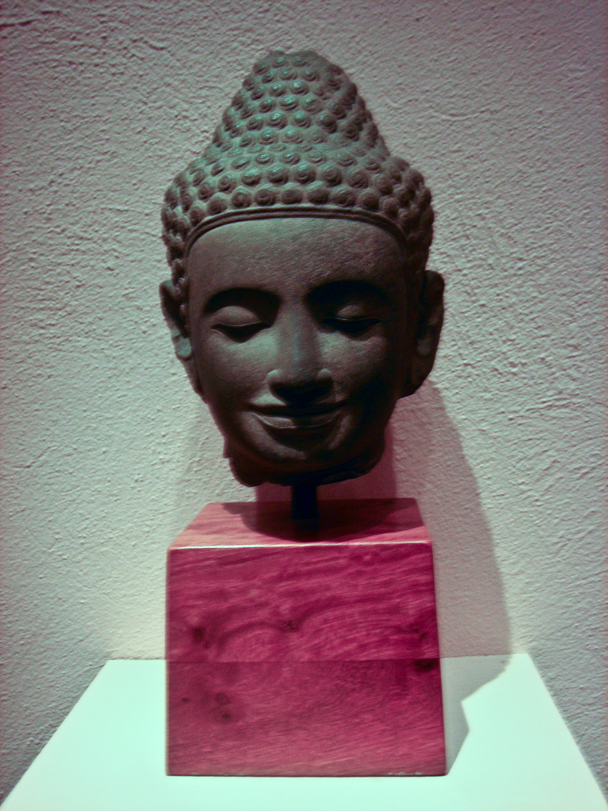 head of Buddha. Sandstone